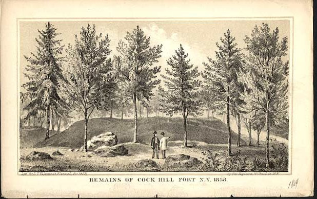 The remains of Cock Hill Fort, circa 1858